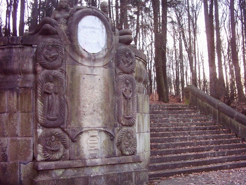 Aš, Gustav Geipel Memorial